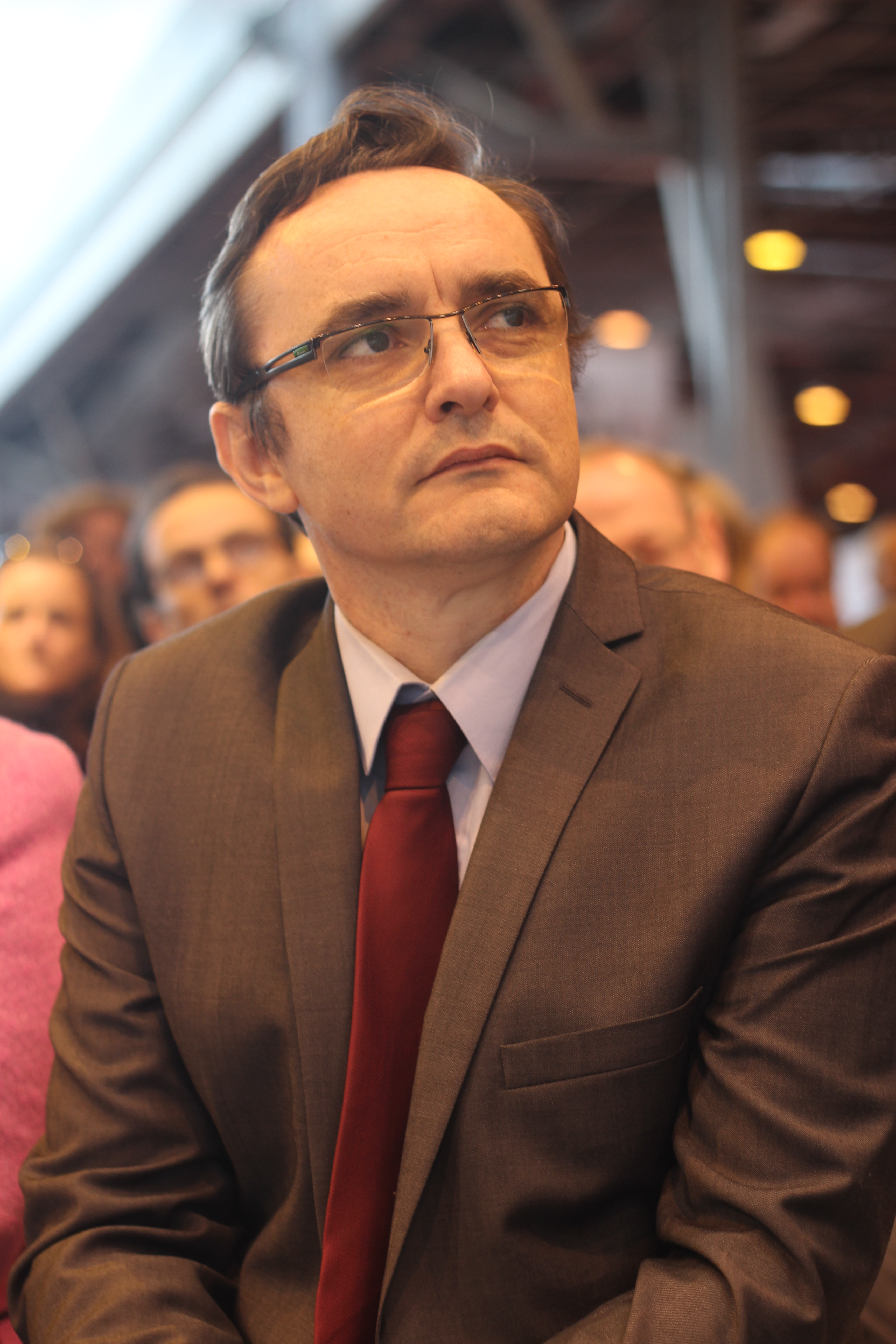 Paris Book Fair, 21-24 March 2014.